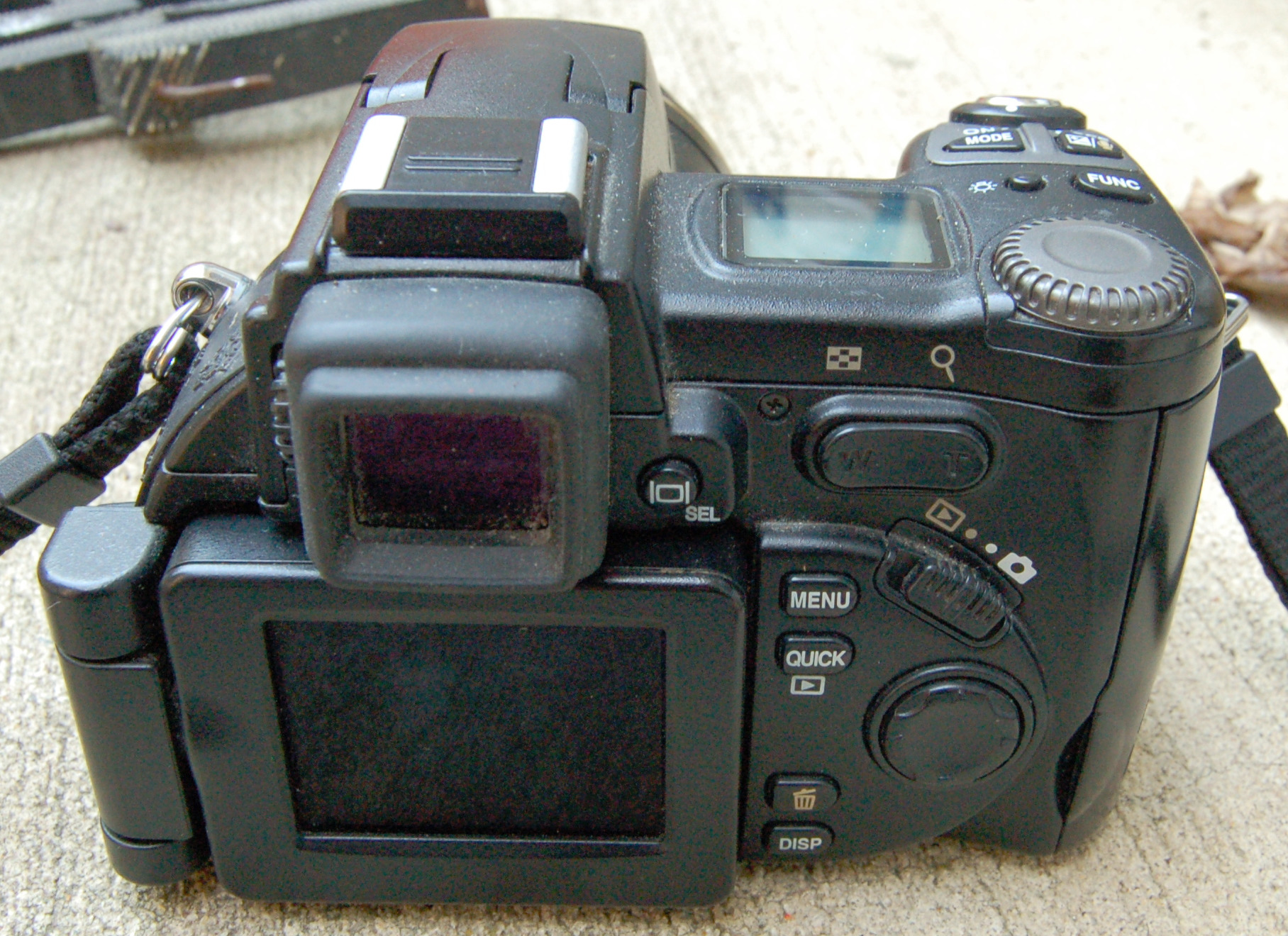 A picture of the rear of a Nikon Coolpix 8700.